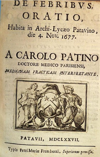 De febribus oratio, 1677